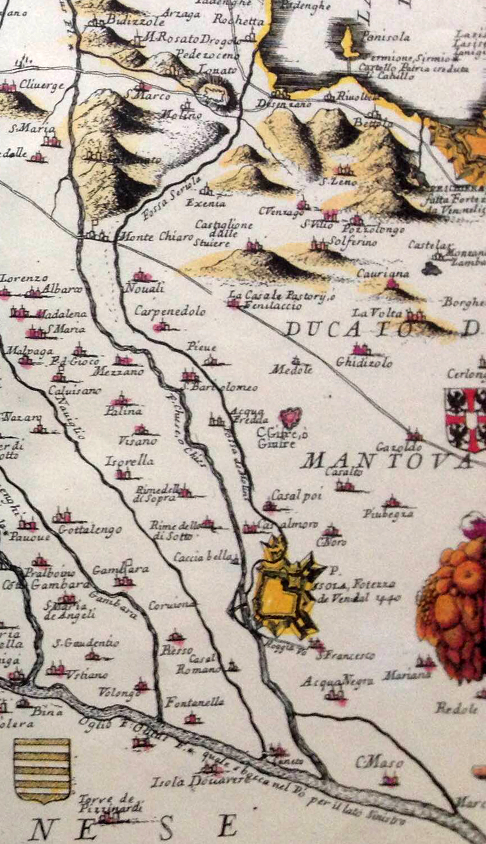 Maps of Brescia-Mantua Border in the XVII century